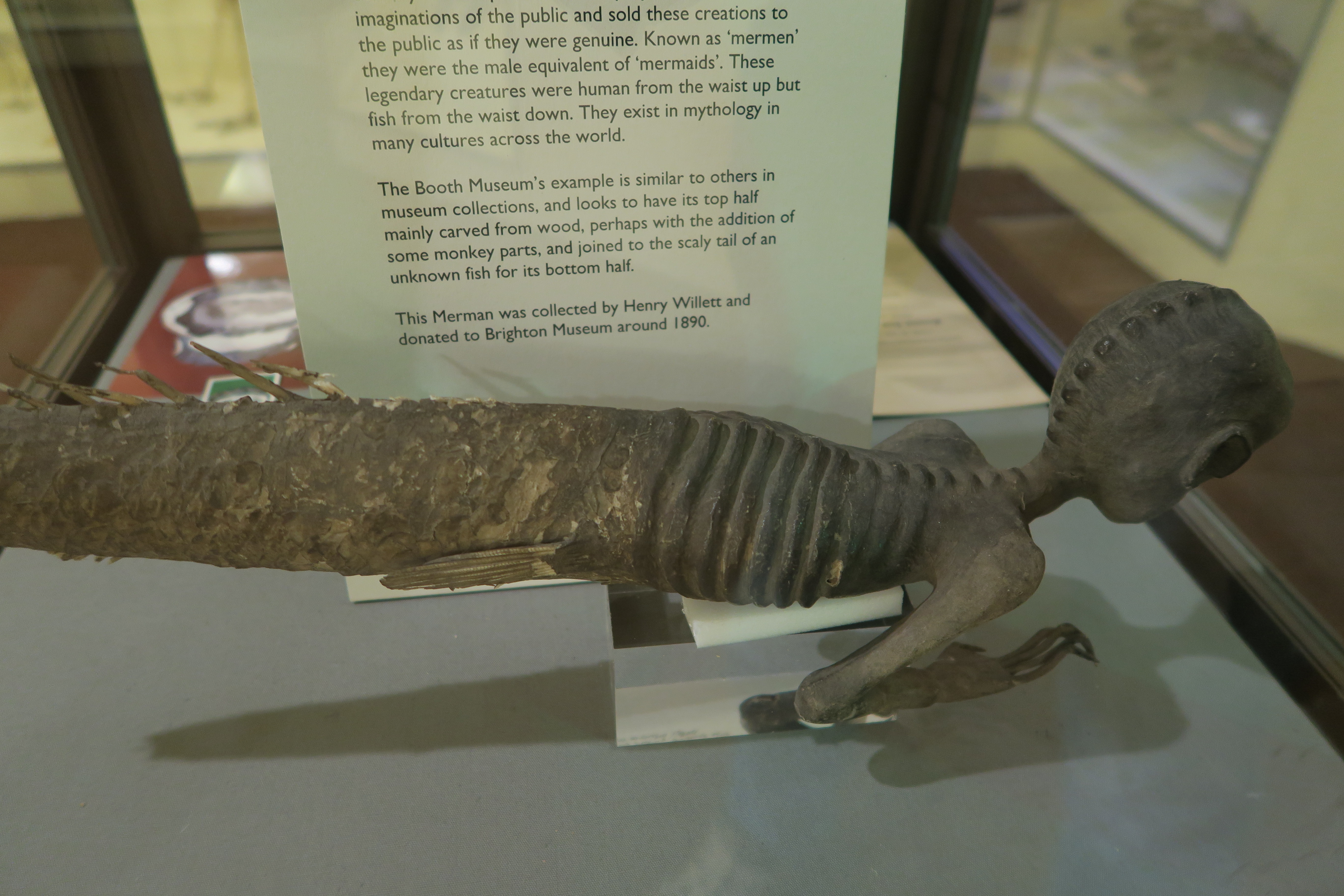 A Merman, a Victorian curiosity in Booth Museum of Natural History. Made out out of carved wood, parts of a monkey and the lower half of a fish.